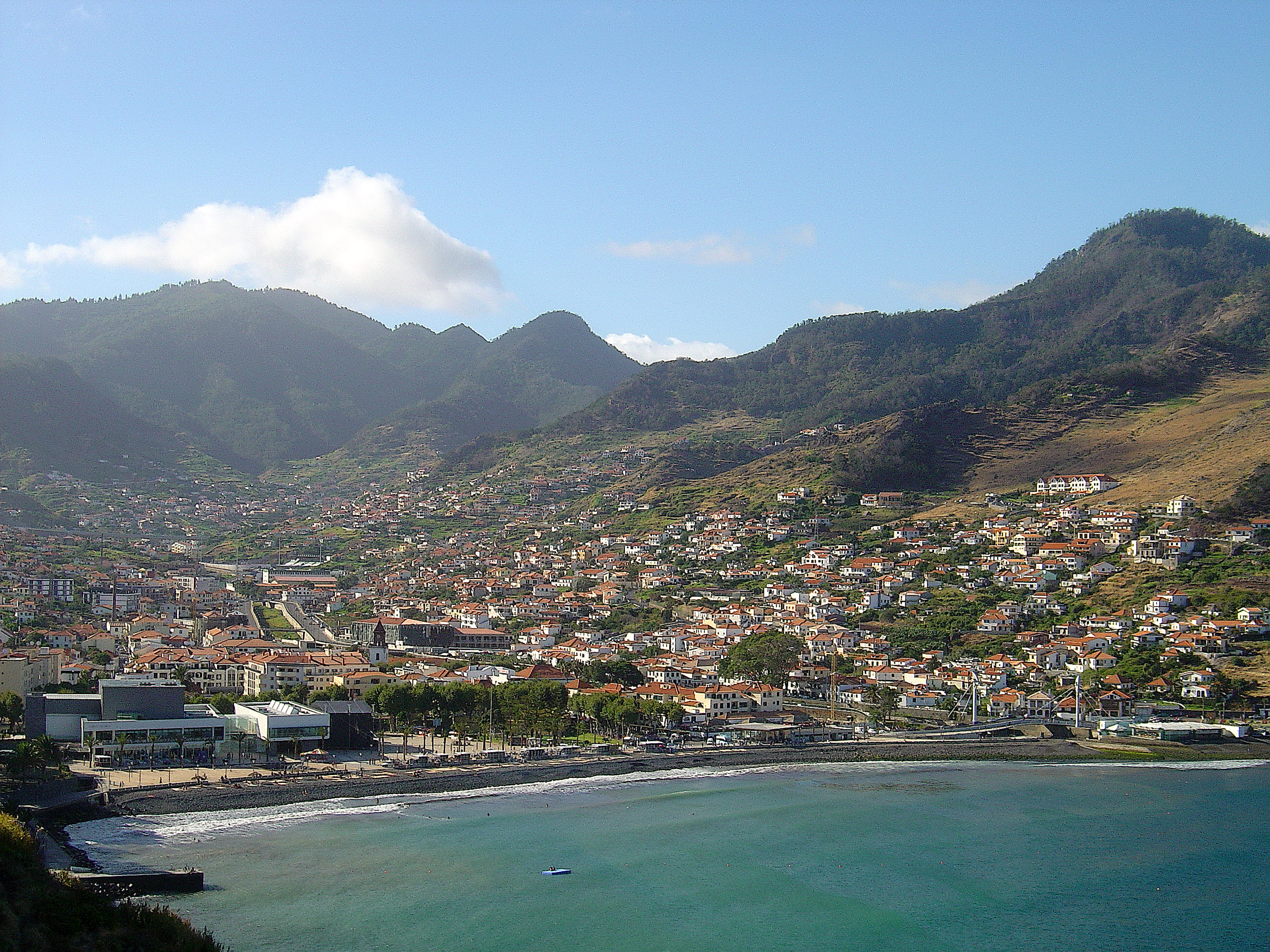 See where this picture was taken. [?]